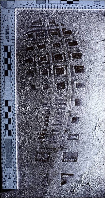 Photo of a footwear impression made by a suspect's right shoe.